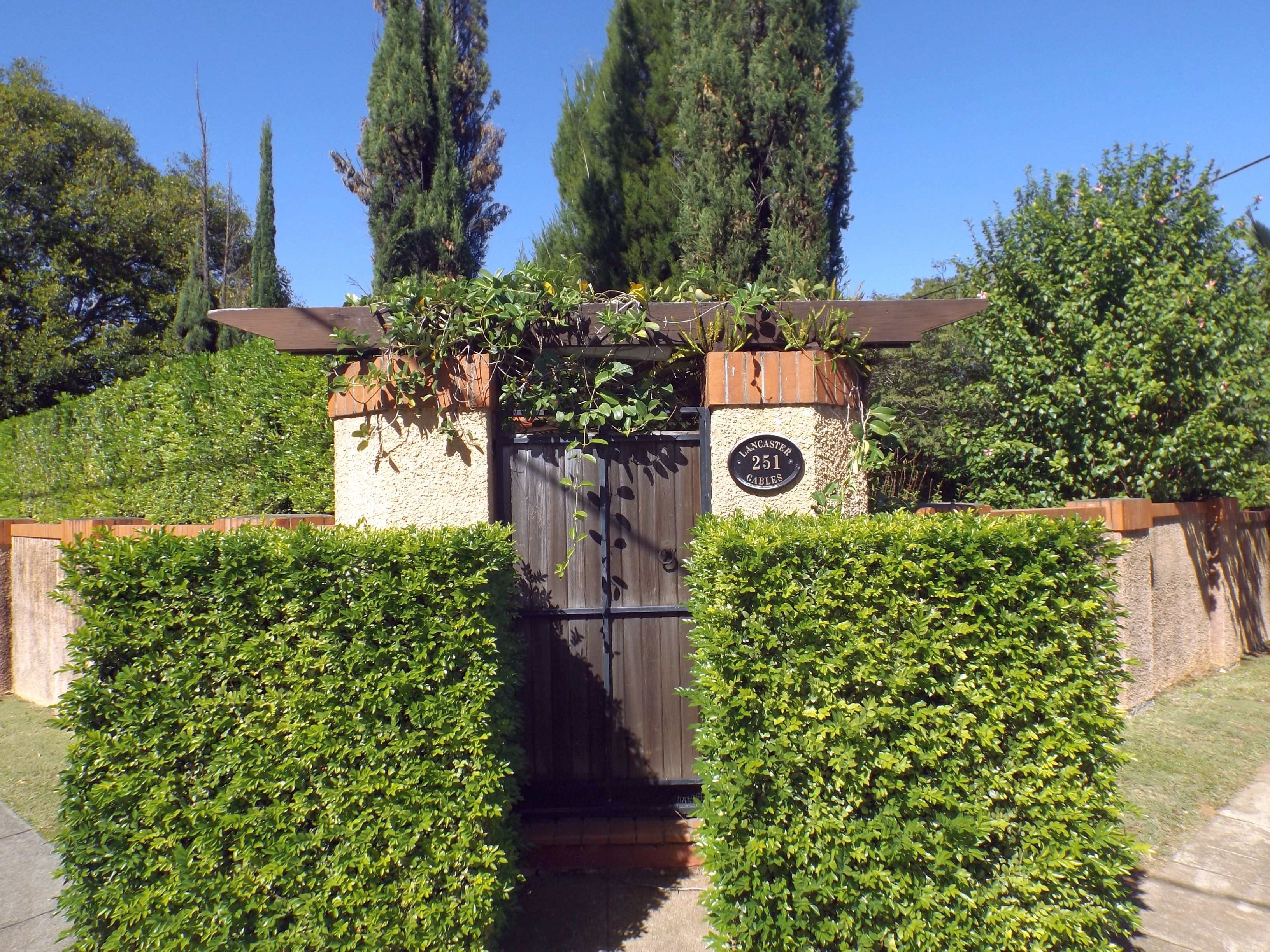 Photo of the street entrance to Musket Villa at Ascot, Brisbane, Queensland, Australia.